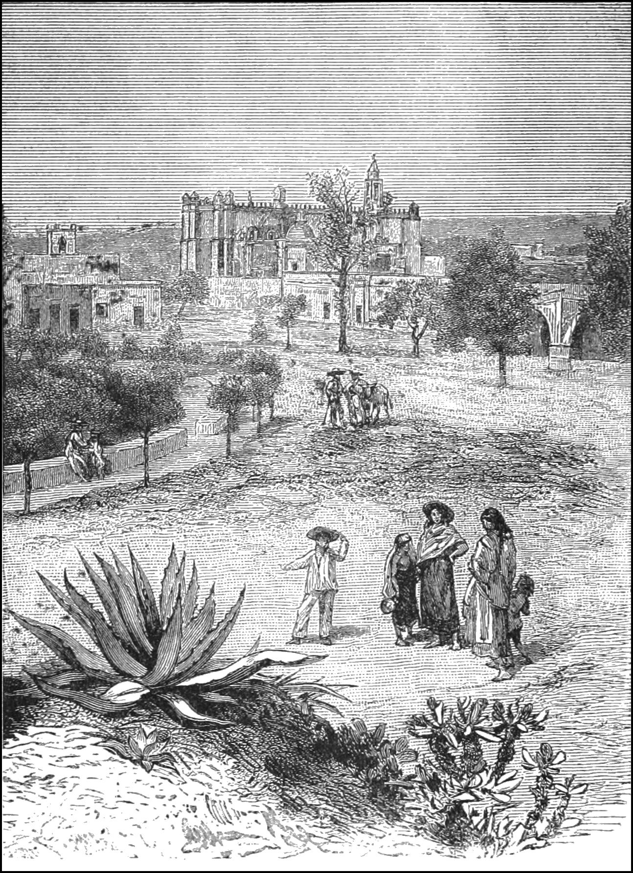 Tula, Mexico